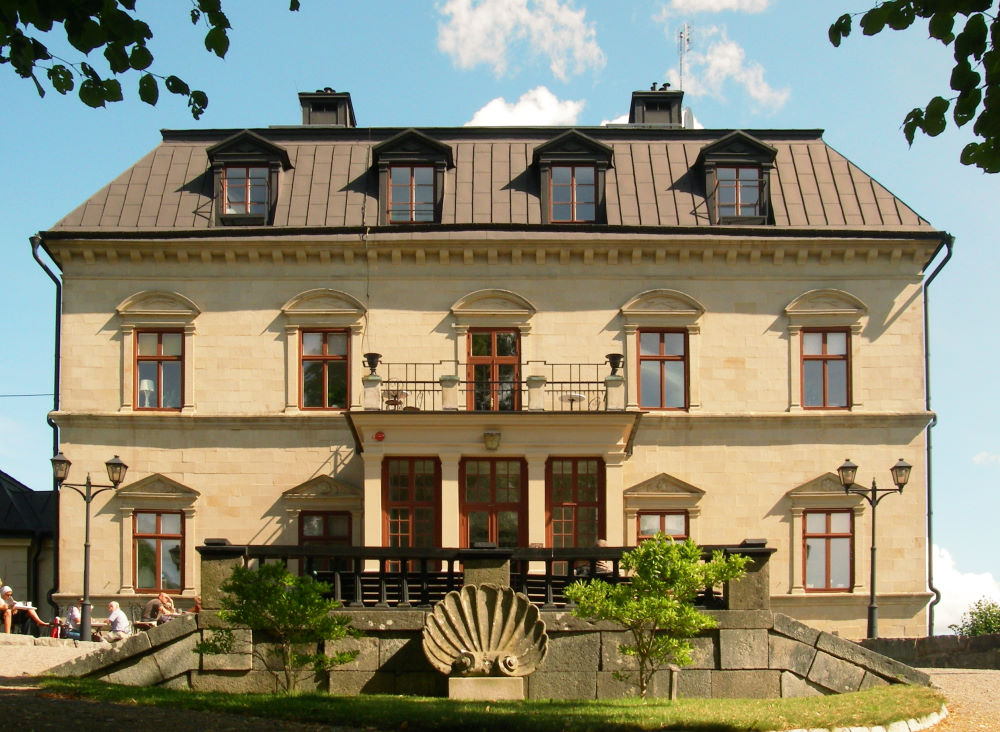 Görvälns slott, front view